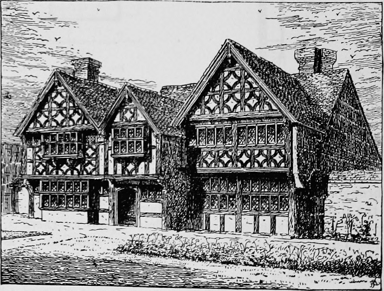 Image from page 509 of "The Victoria history of the county of Surrey" (1902) featuring Great Tangley Manor, Surrey. This house was used as a location for the Agatha Christie's Marple (TV Series) episode "The Moving Finger" (2006). Hall House on Water Lane, Smarden featured as the other side of the house.